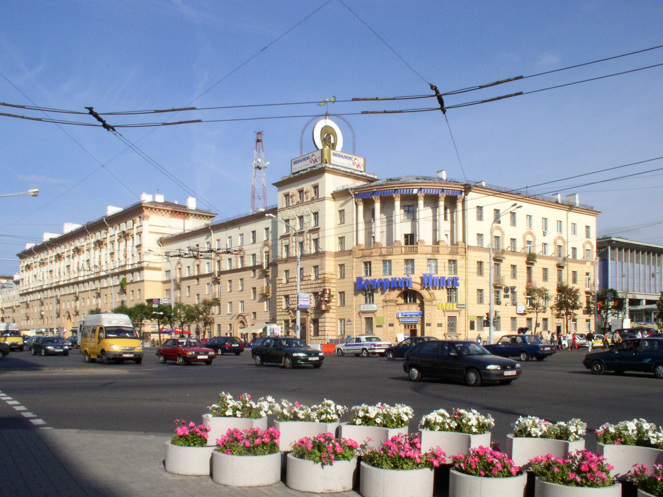 Skaryna avenue. Minsk, Belarus.